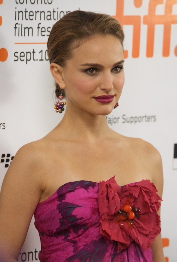 Natalie Portman at the premiere gala for Love and Other Impossible Pursuits at the 2009 Toronto International Film Festival.